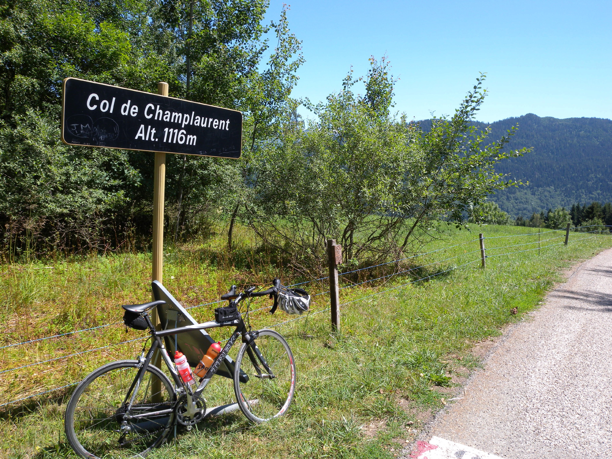 Starts at 295 m.... so still a big climb - and often steep - average 8.1 %.